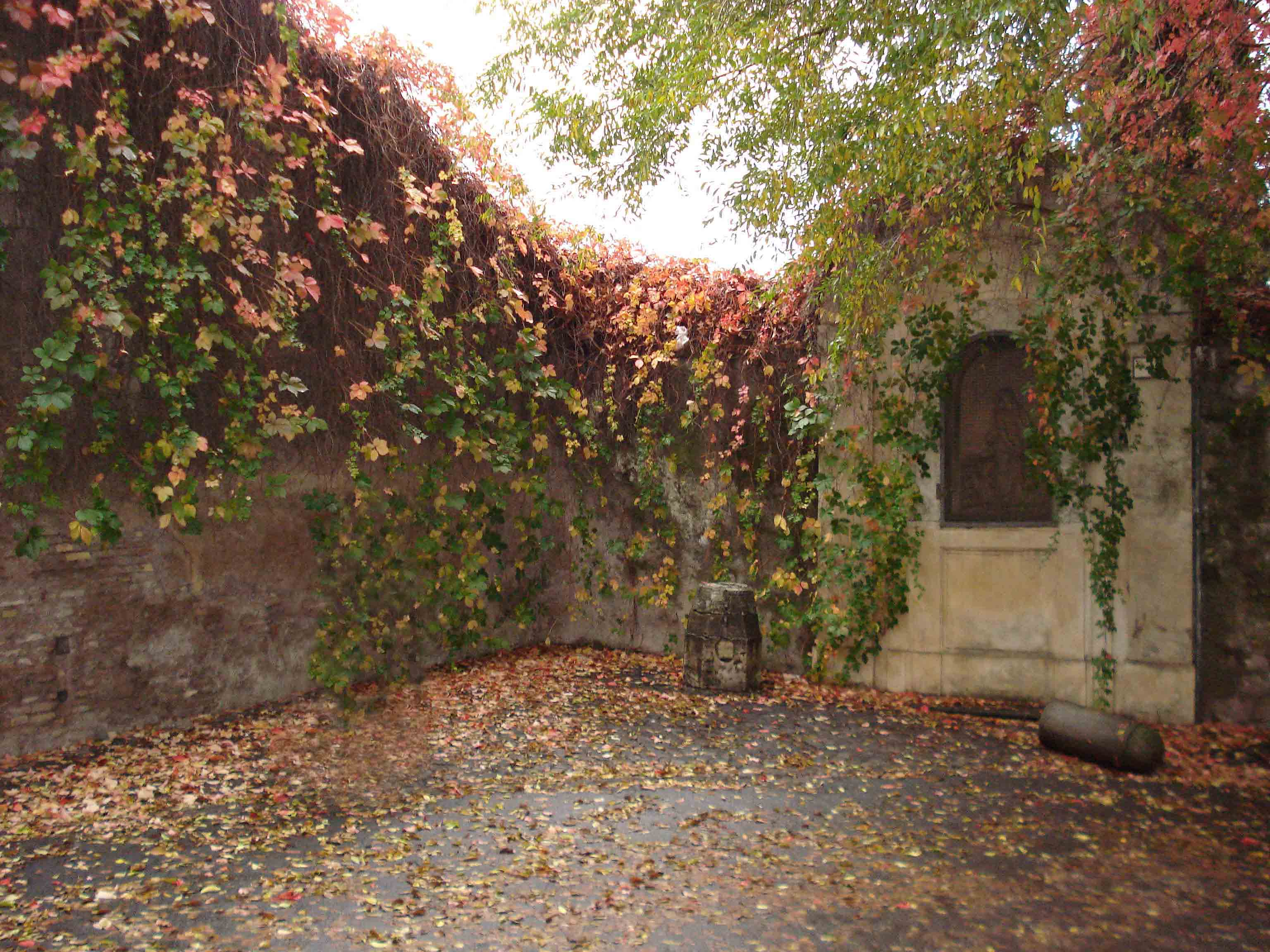 Photo of a bend in the path to the summit of the Palatine Hill, Rome, Italy, in autumn color.